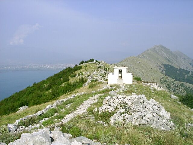 Taraboš Mountain in Montenegro